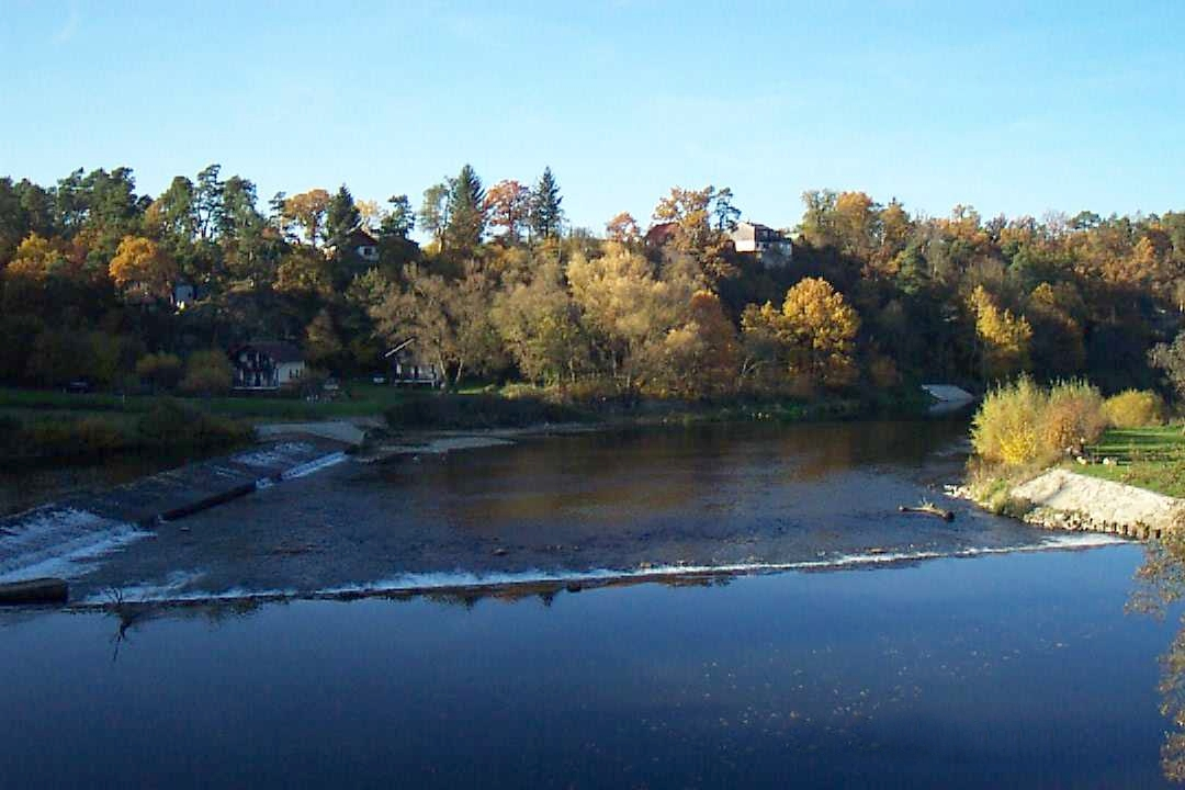 River Otava in Czech Republic